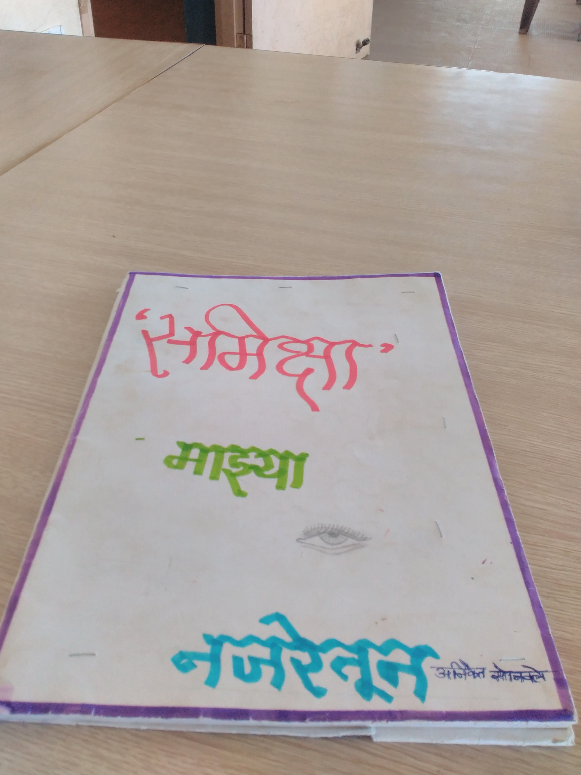 Samrth Library at Samarth Vidyalaya unchgaon.